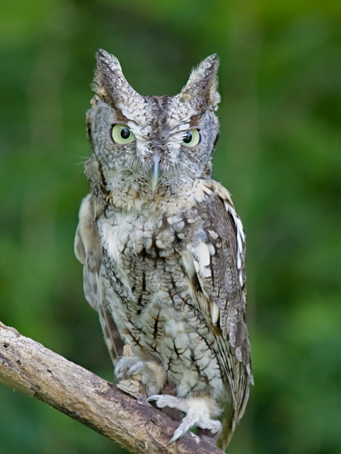 Eastern screech owl - gray morph.